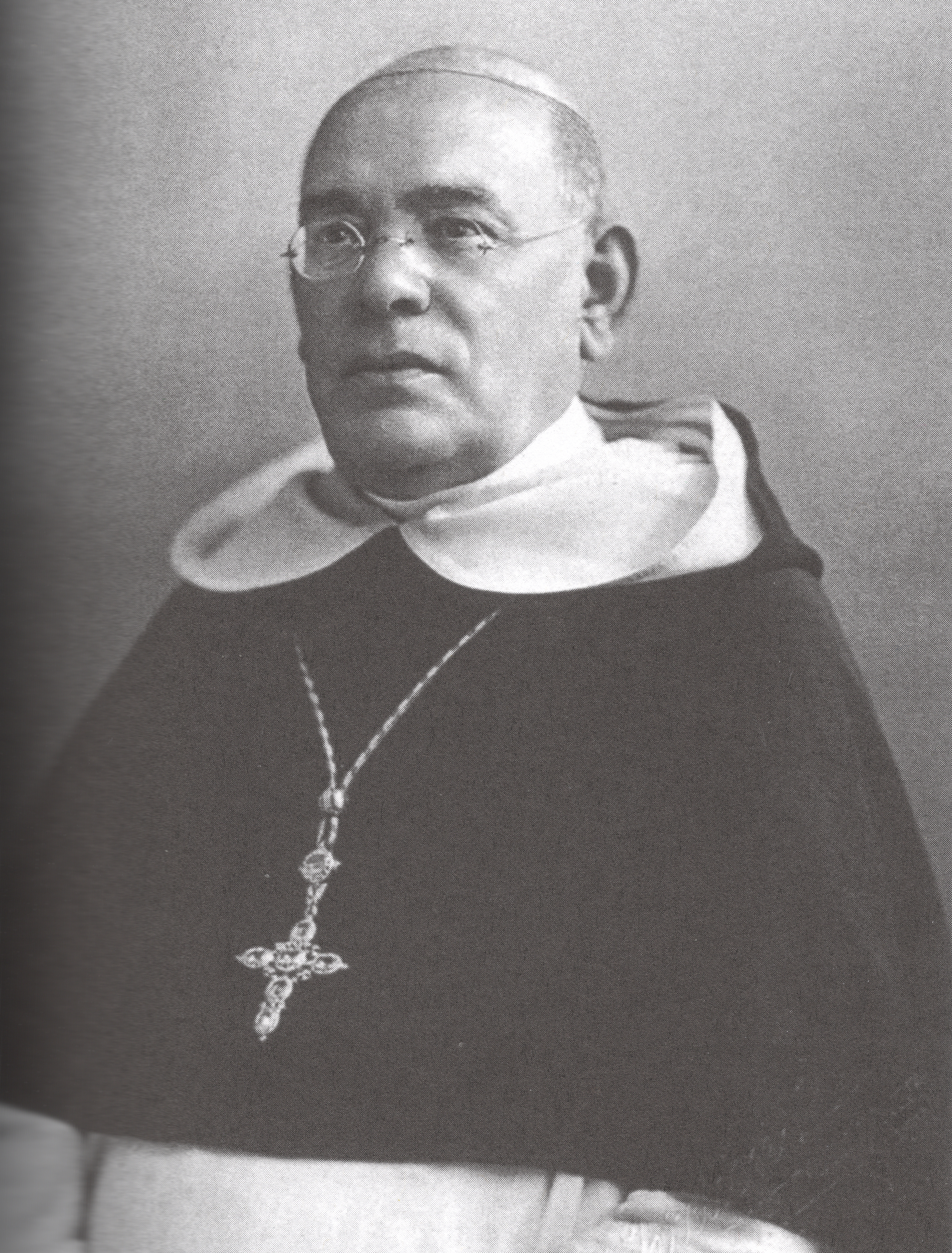 Mons Angelo Portelli Auxiliary Bishop of Malta